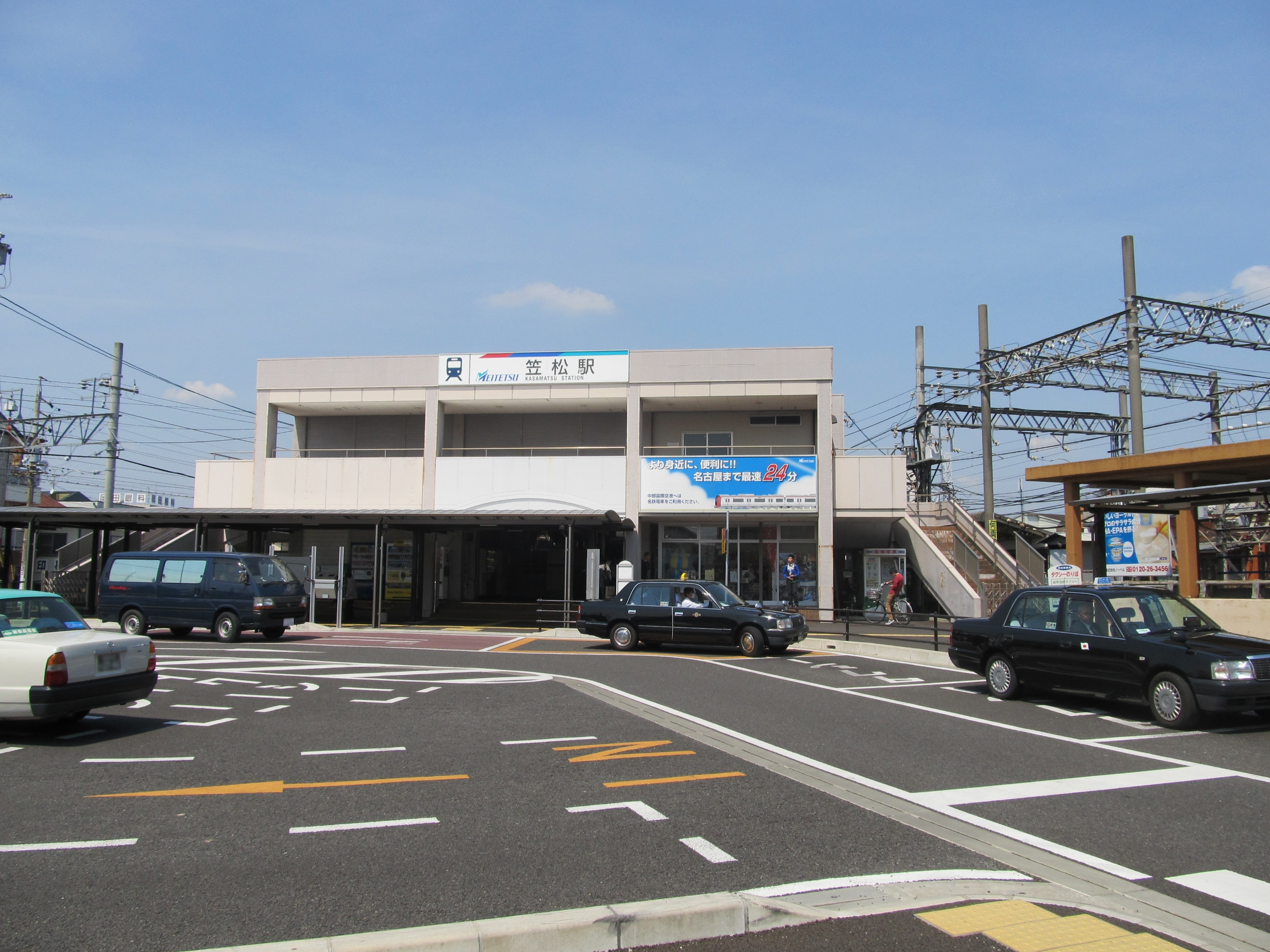 Nagoya Railroad Nagoya Main Line and Takehana Line Kasamatsu Station Building